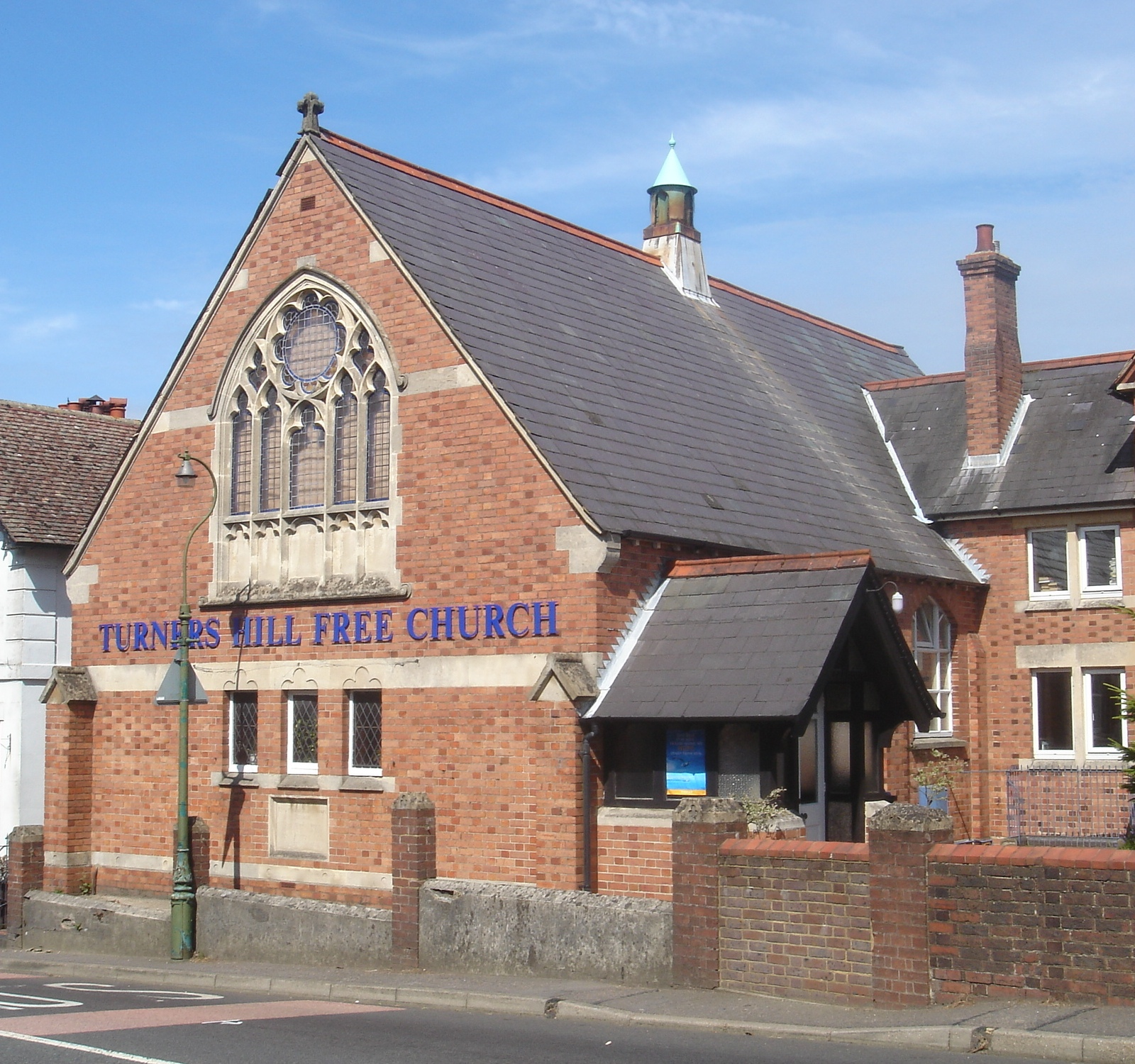 Turners Hill Free Church, North Street, Turners Hill, District of Mid Sussex, West Sussex, England. The Decorated Gothic-style building of 1906 was built on the site of a chapel for the Countess of Huntingdon's Connexion.